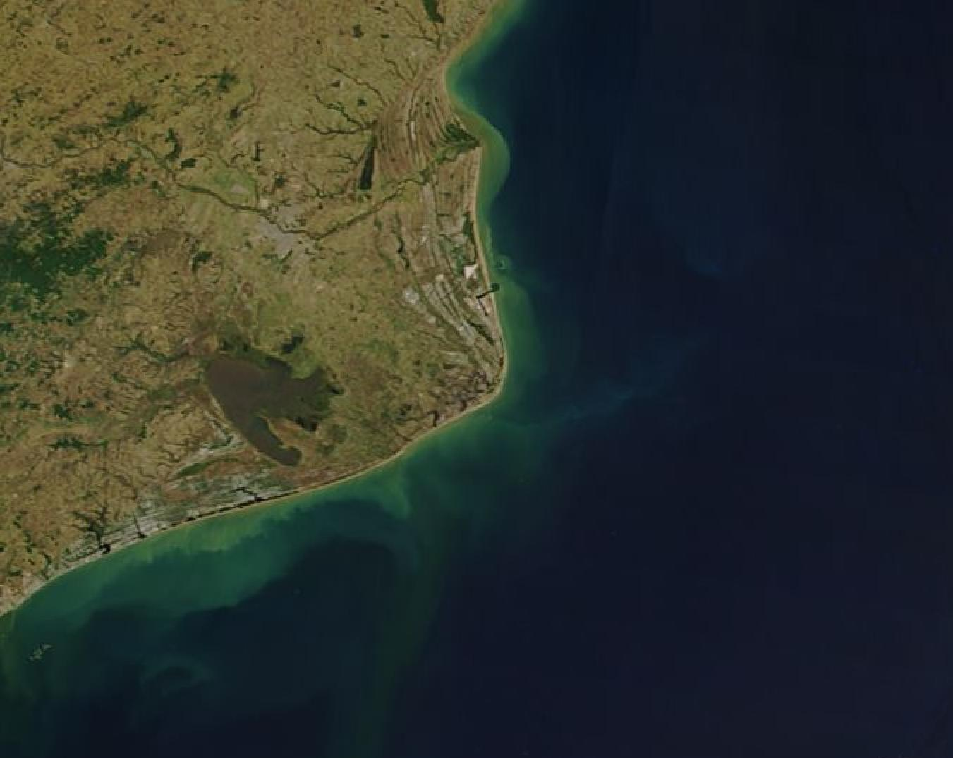 A Satellite picture of Cabo de São Tomé, in Campos dos Goytacazes municipality, Rio de Janeiro state, Brazil.